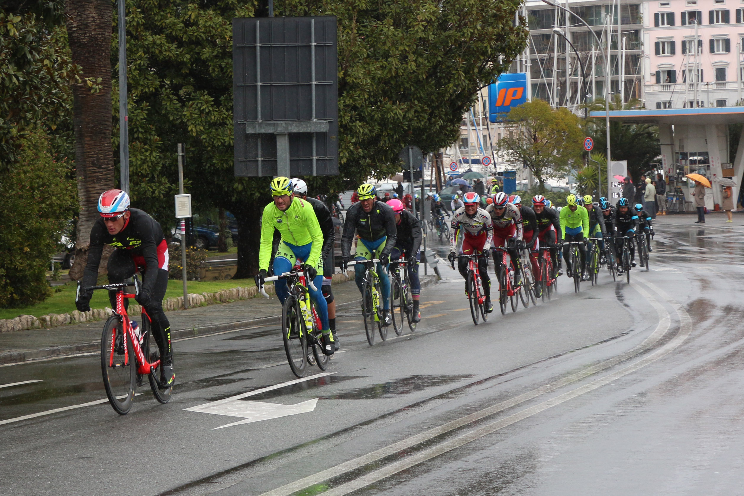 Peloton, Milan-Sanremo 2015, Savona